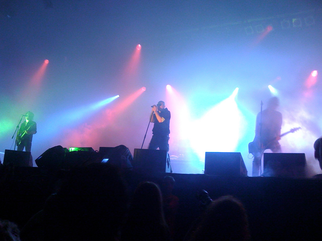 The Sisters of Mercy performing at Spirit of Burgas, Burgas, Bulgaria, August 2008